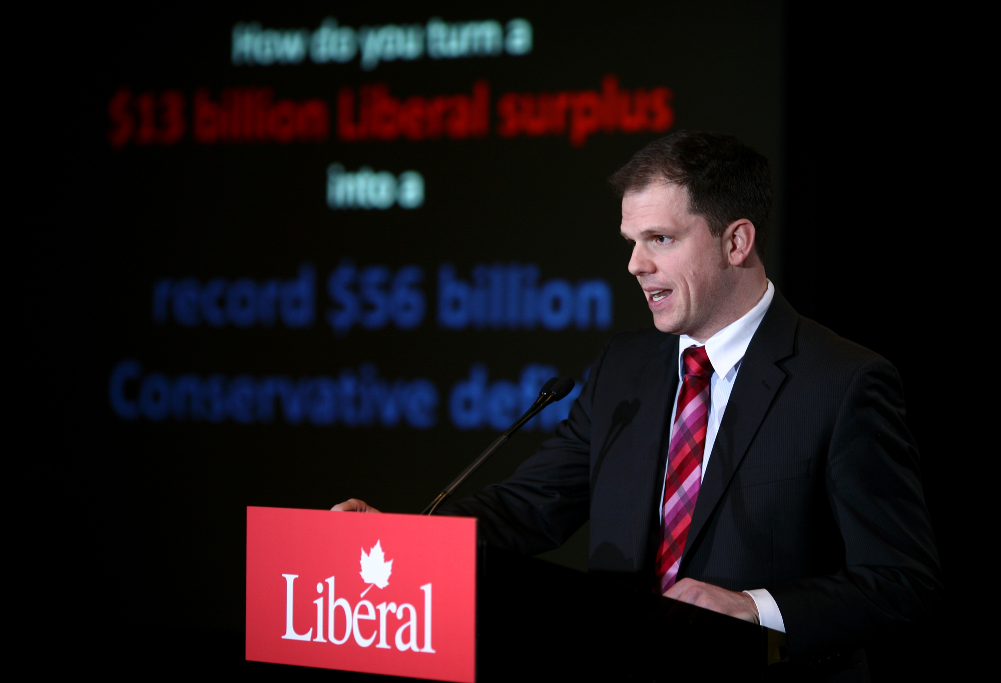 March 28, 2011: Liberal MP Mark Holland speaks during a news conference in Toronto. Photos: Dave Chan